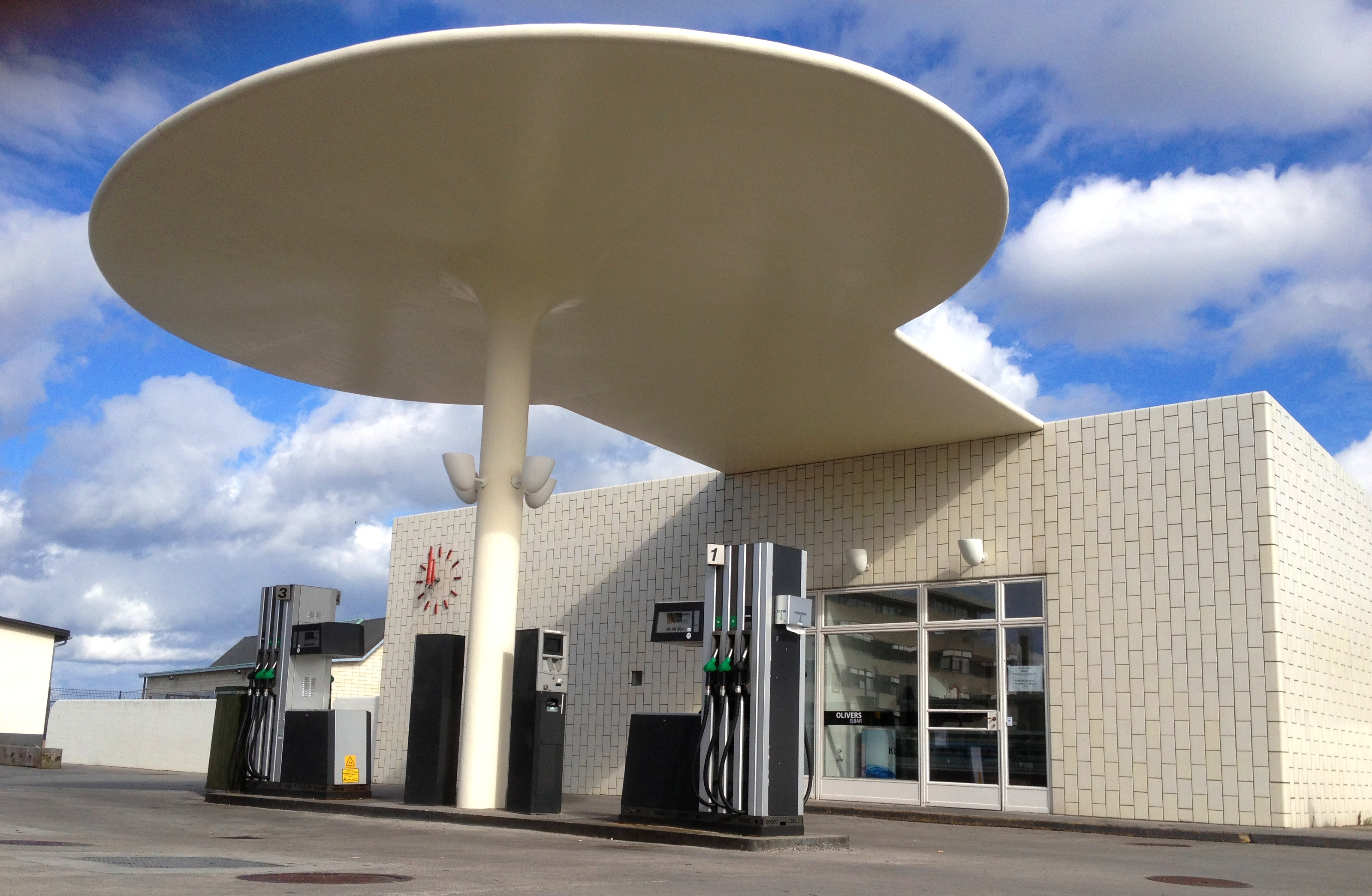 Gas station (1937) by Danish architect Arne Jacobsen, Kystvejen 24, Skovshoved, Denmark